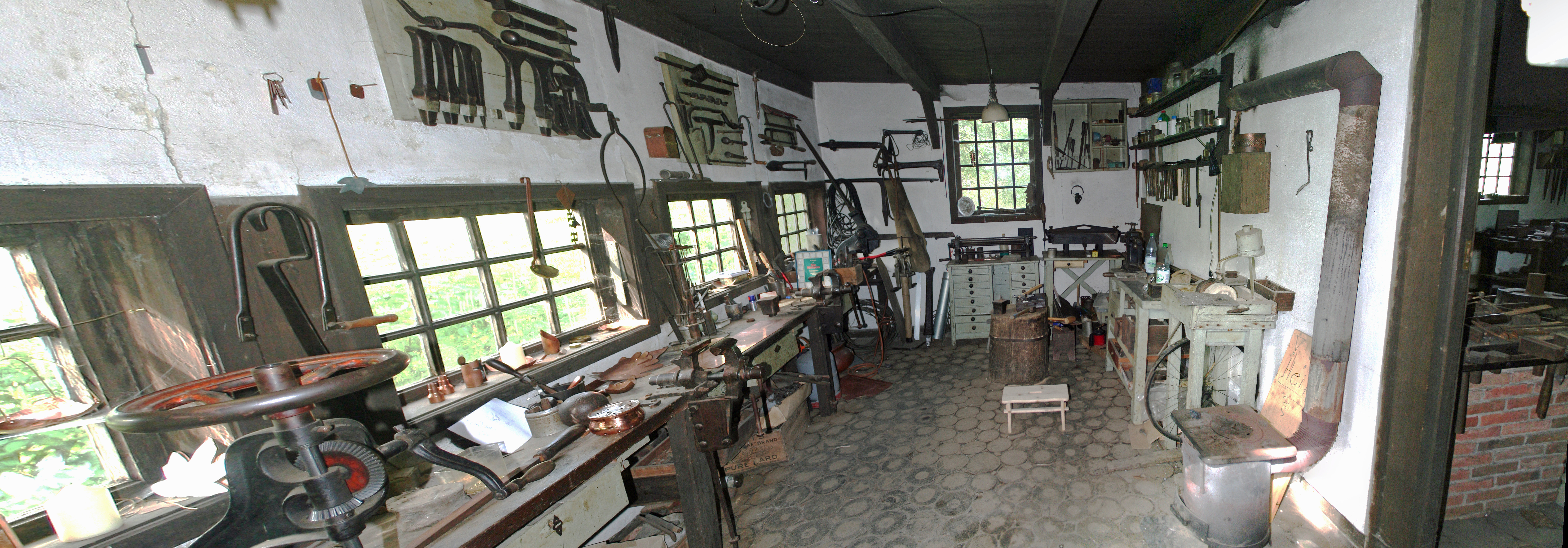 Coppersmithy - Open air museum Cloppenburg.jpg